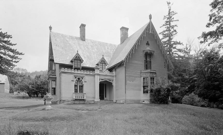 The Justin Smith Morrill House, on the Morrill Homestead in Strafford, Orange County, Vermont.